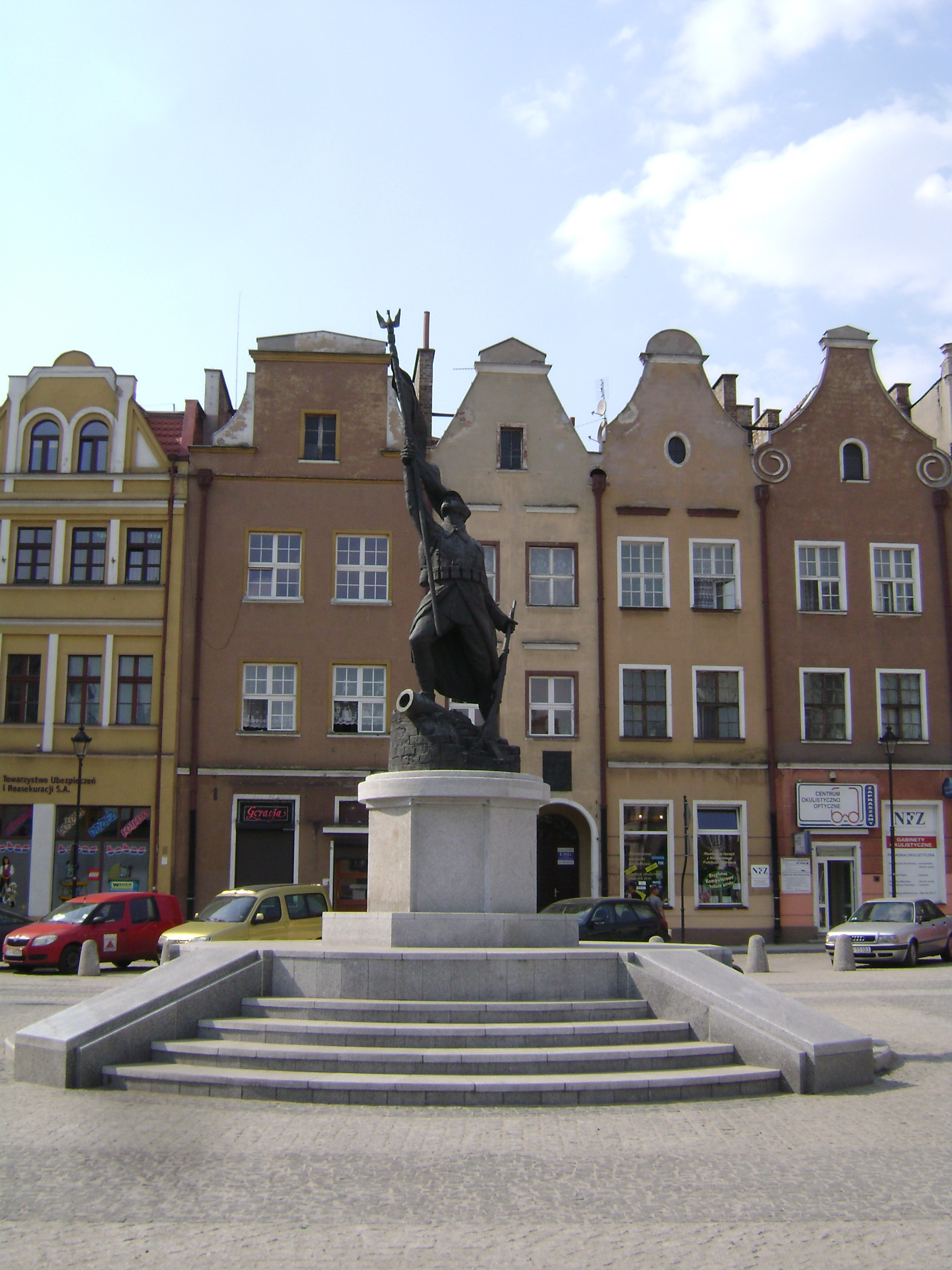 Monument of a Polish Soldier by Stanisław Jackowski at the Market Square in Grudziądz, Poland